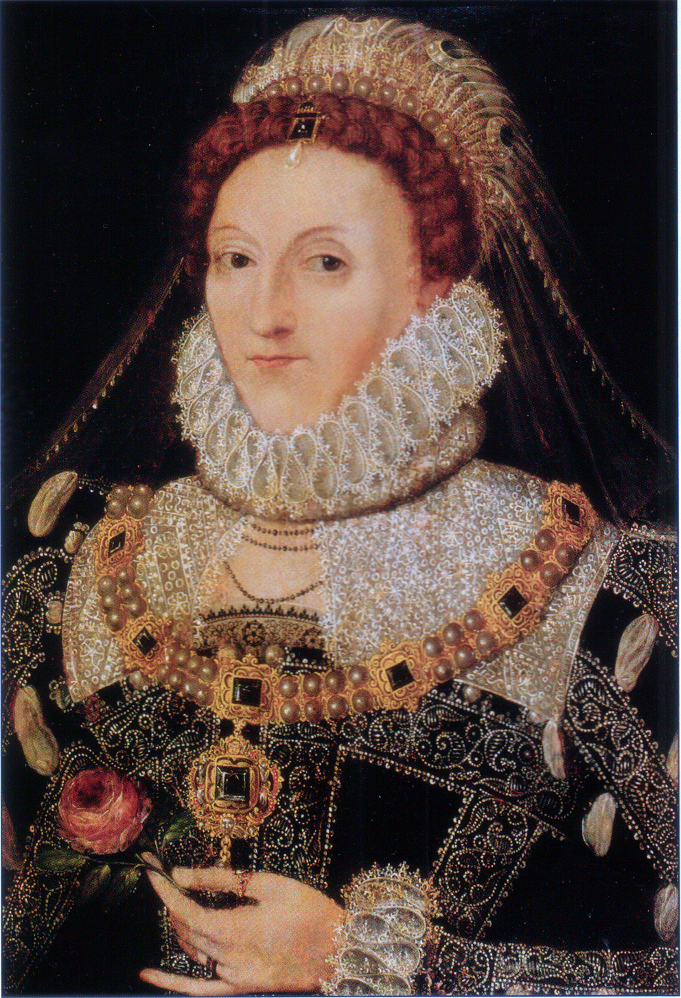 Elizabeth I of England c. 1575-78 by an unknown artist, the Fairhaven Collection, Angelsey Abbey, the National Trust, colour-corrected after version at